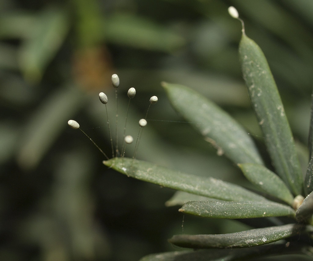 Chrysopa sp., huevos sobre hojas de tejo (Taxus baccata). Parque del Oeste, Madrid. The eggs are laid on top of a strand of silk to prevent detection by predators.